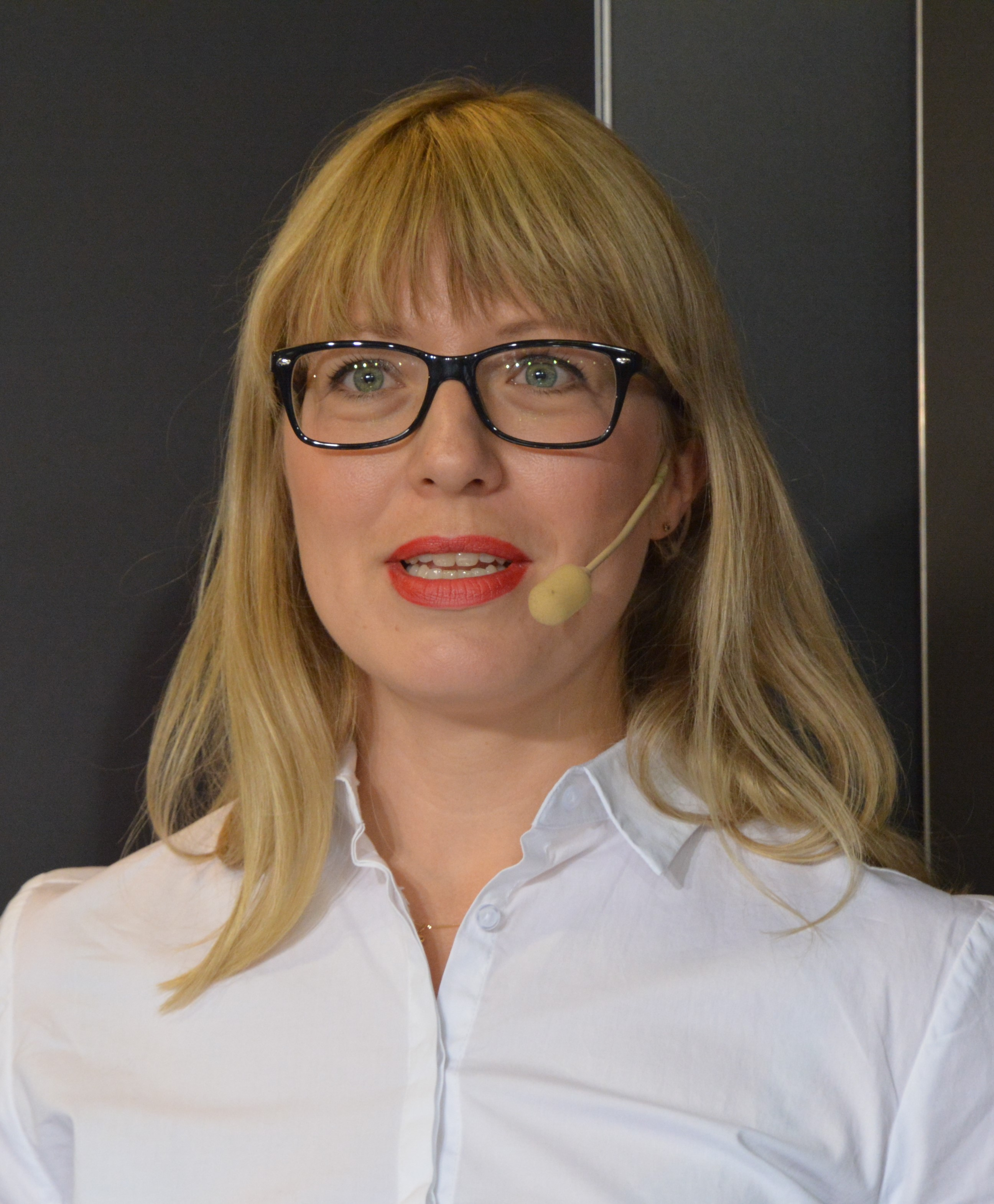 Tove Svenonius